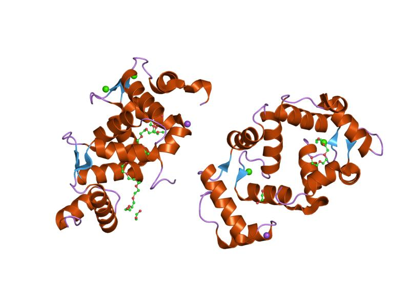 Cartoon representation of the molecular structure of protein registered with 1g8i code.